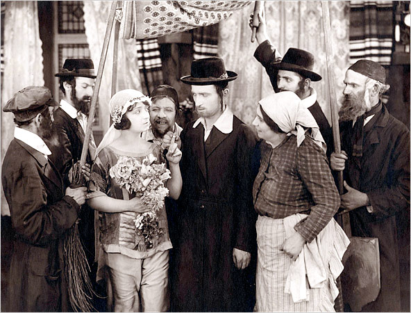 Yiddish theater scene